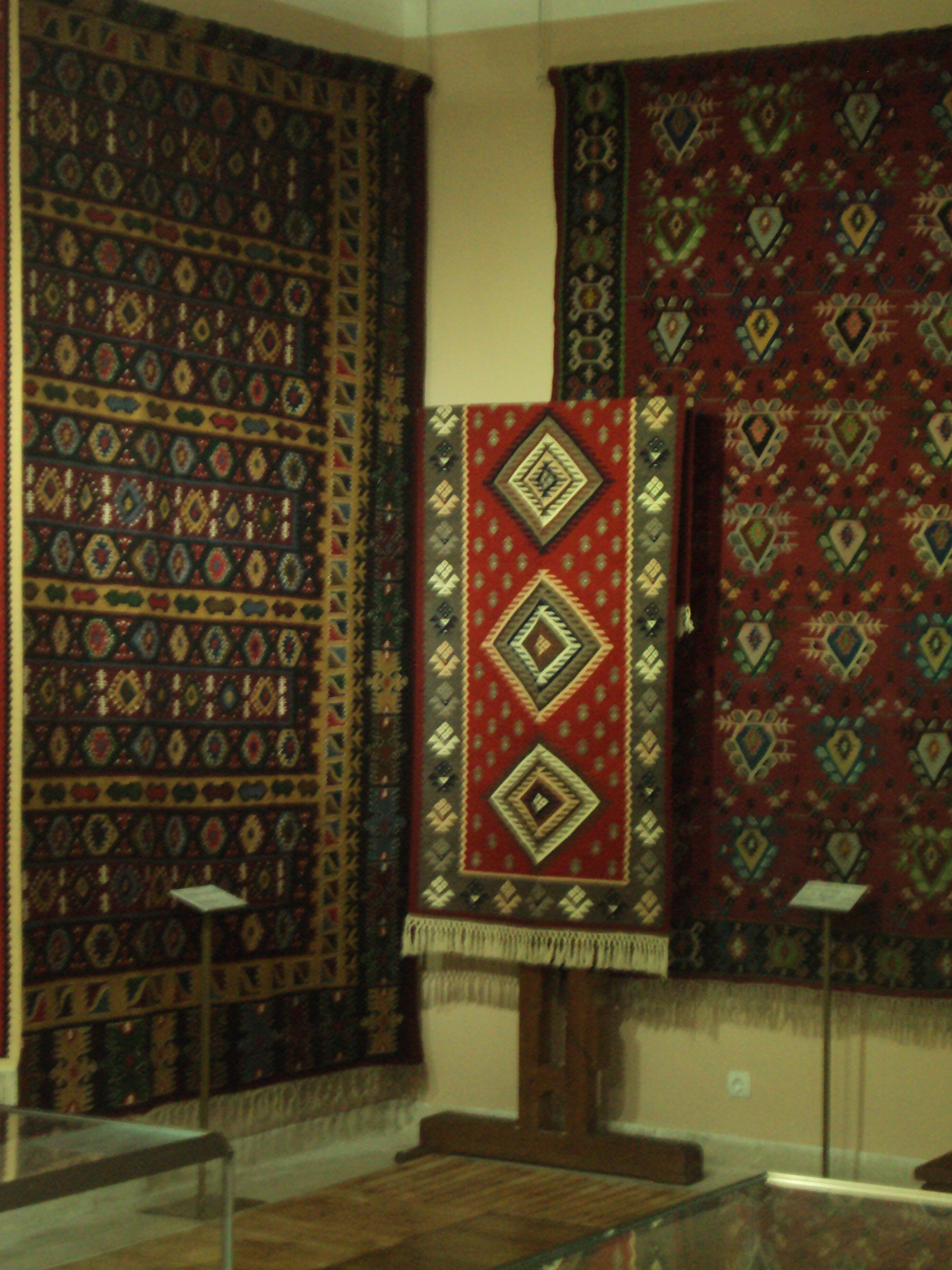 Chiprovtsi